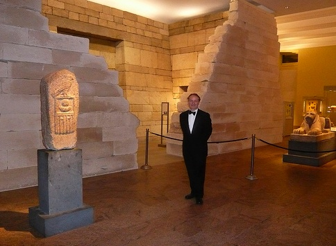 exhibit designer Jeff Daly at Metropolitan Museum near temple entrance he designed.